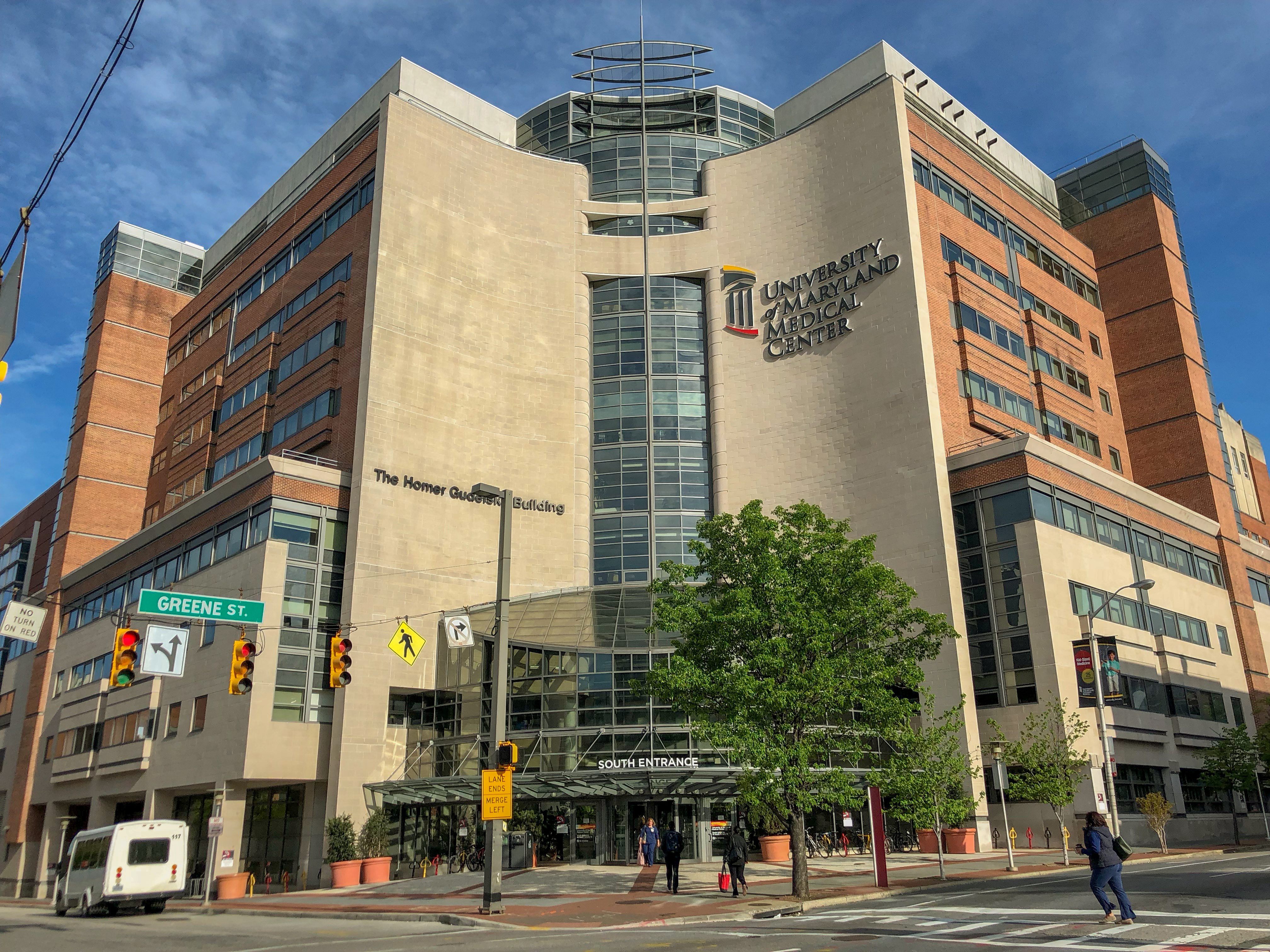 University of Maryland Medical Center, South Entrance